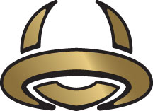 The expansion symbol of the Magic: The Gathering set Duel Decks: Divine Vs. Demonic.